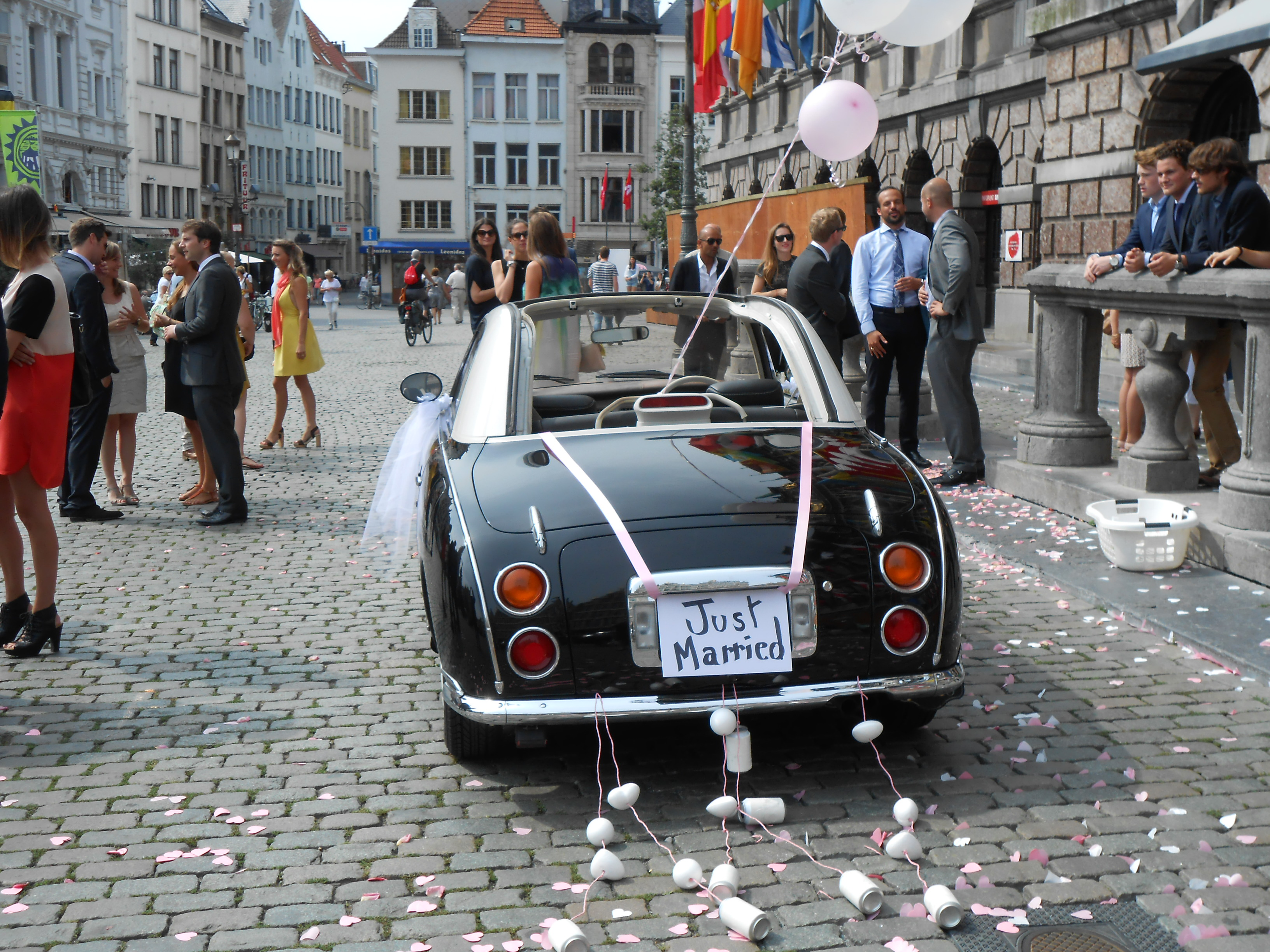 Nissan Figaro at wedding ceremony